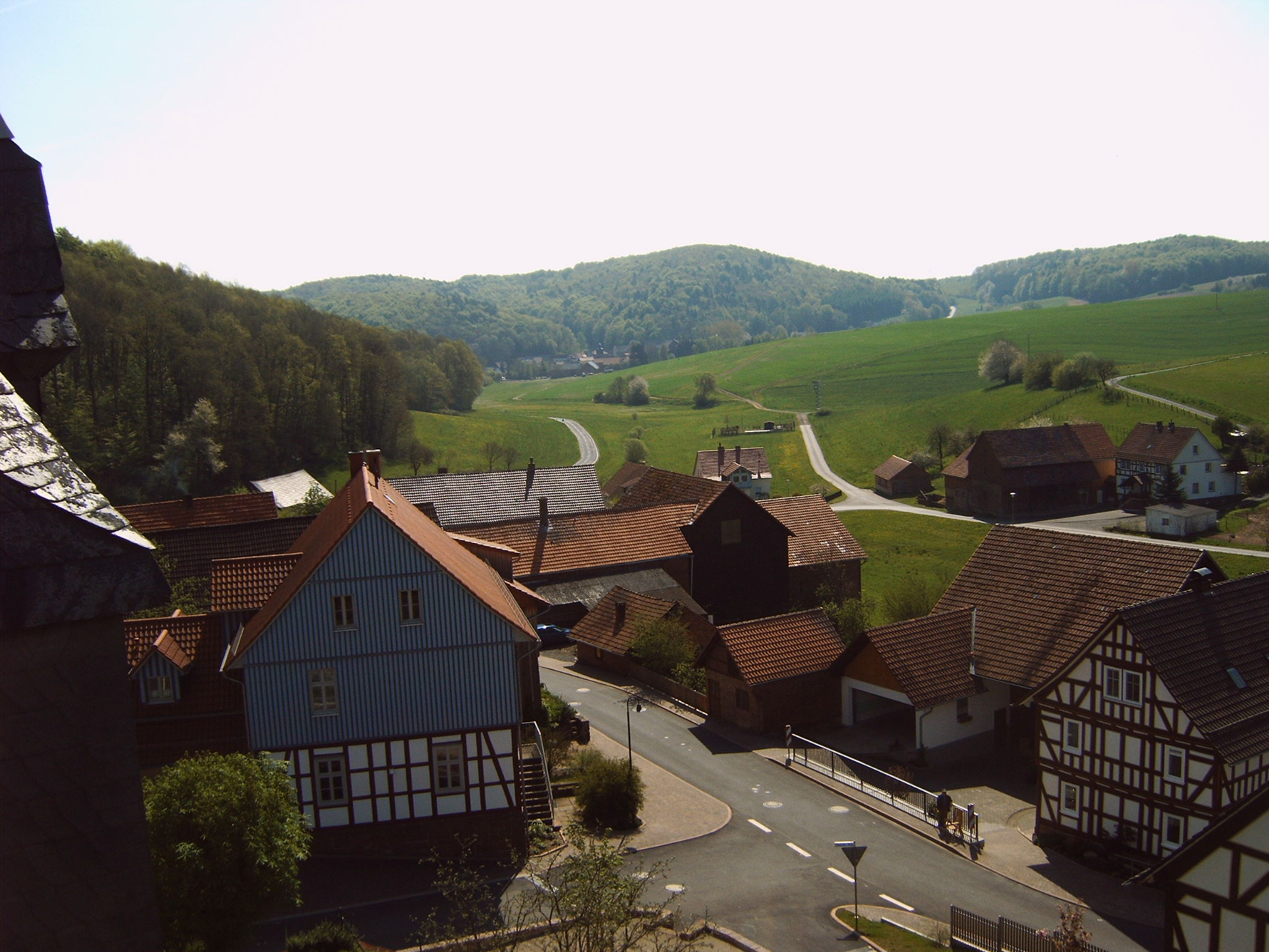 View from the church steeple in Sontra-Thurnhosbach in the direction of Waldkappel-Stadthosbach